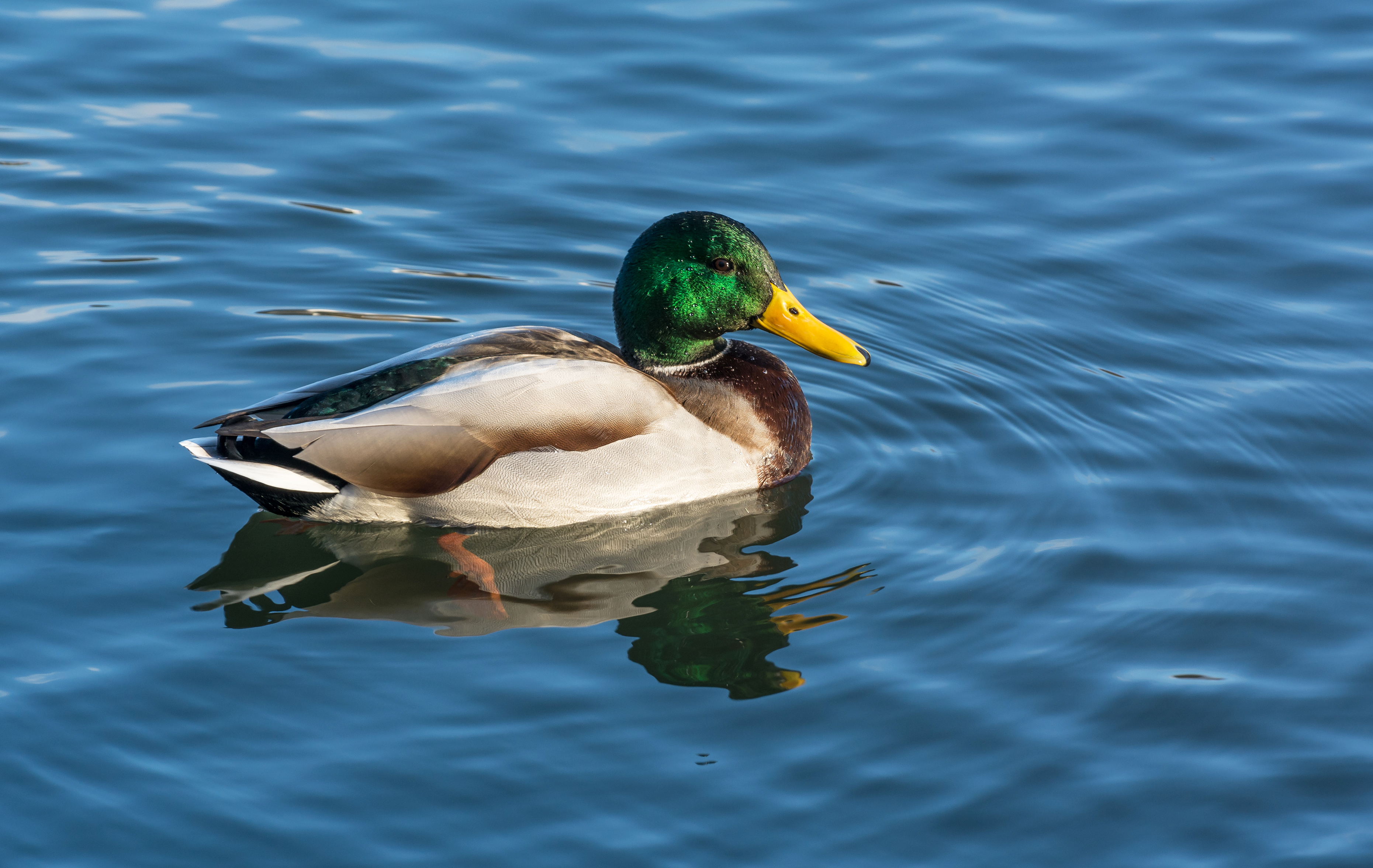 Mallard (Anas platyrhynchos) on the water (male) in Poland